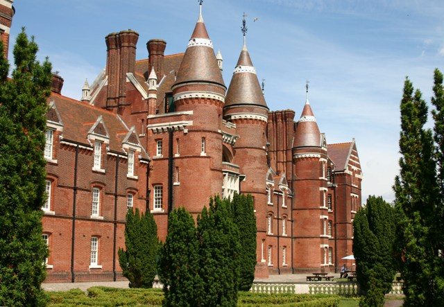 Portsmouth City Museum